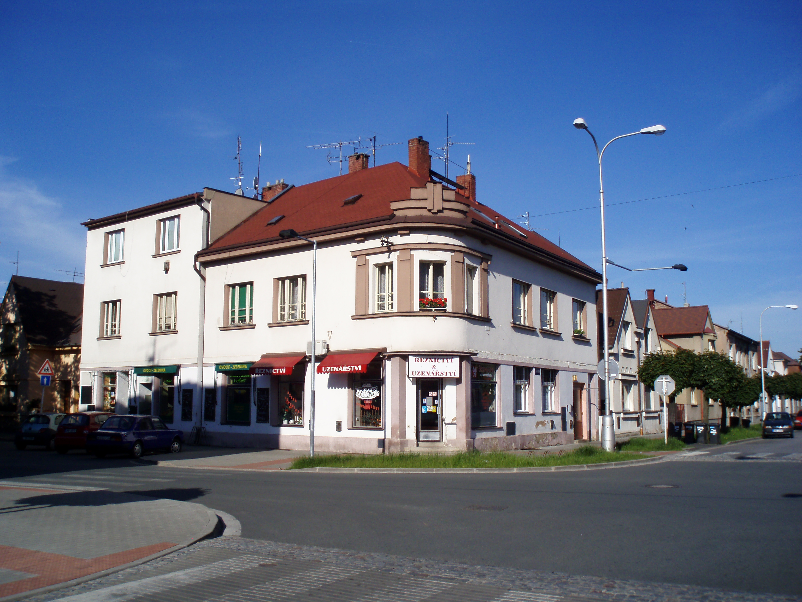 House Nr 829 in Street Jiřího Purkyně in Hradec Králové (Czechia)